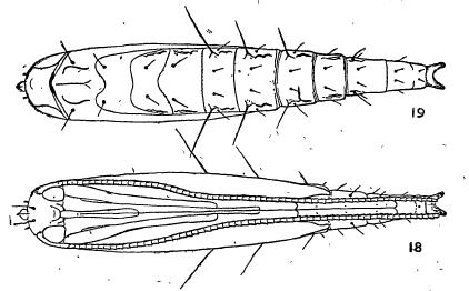 Acrocercops panacivermiforma pupa (ventral and dorsal view)